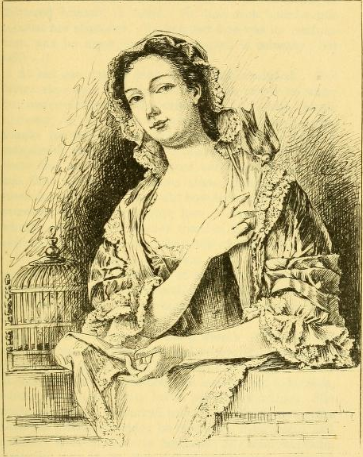 Ilustration aus Charles Reade, Peg Woffington, 1852